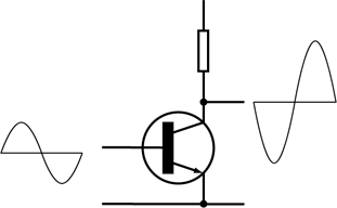 Diagram of Class A amplifier